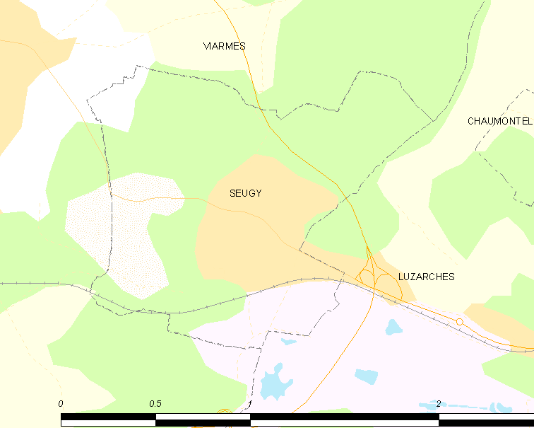 Map of French municipality Seugy